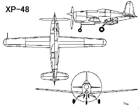 Three-side view of the porposed Douglas XP-48 fighter. The XP-48 was designed as a small, lightweight fighter by Douglas Aircraft Company in 1939. The Model 312 was to be powered by a Ranger inverted-vee SGV-770 of 525 hp. The U.S. Army Air Corps canceled the contract before any aircraft were built because of doubt about the XP-48 performance.